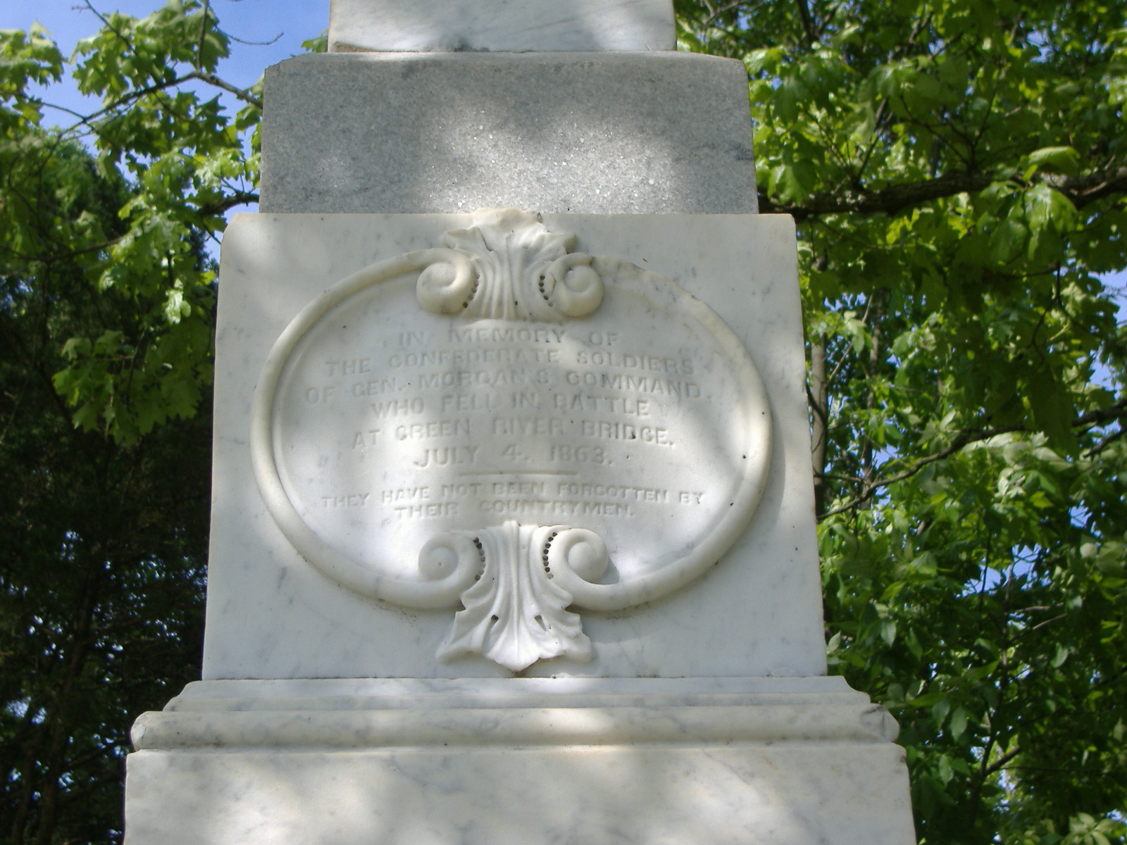 Inscription of Battle of Tebb's Bend Monument in Taylor County, Kentucky In Memory of the Confederate Soldiers of General Morgan's Command who fell in battle at Green River Bridge. July 4, 1863. - They have not been forgotten by their countrymen.